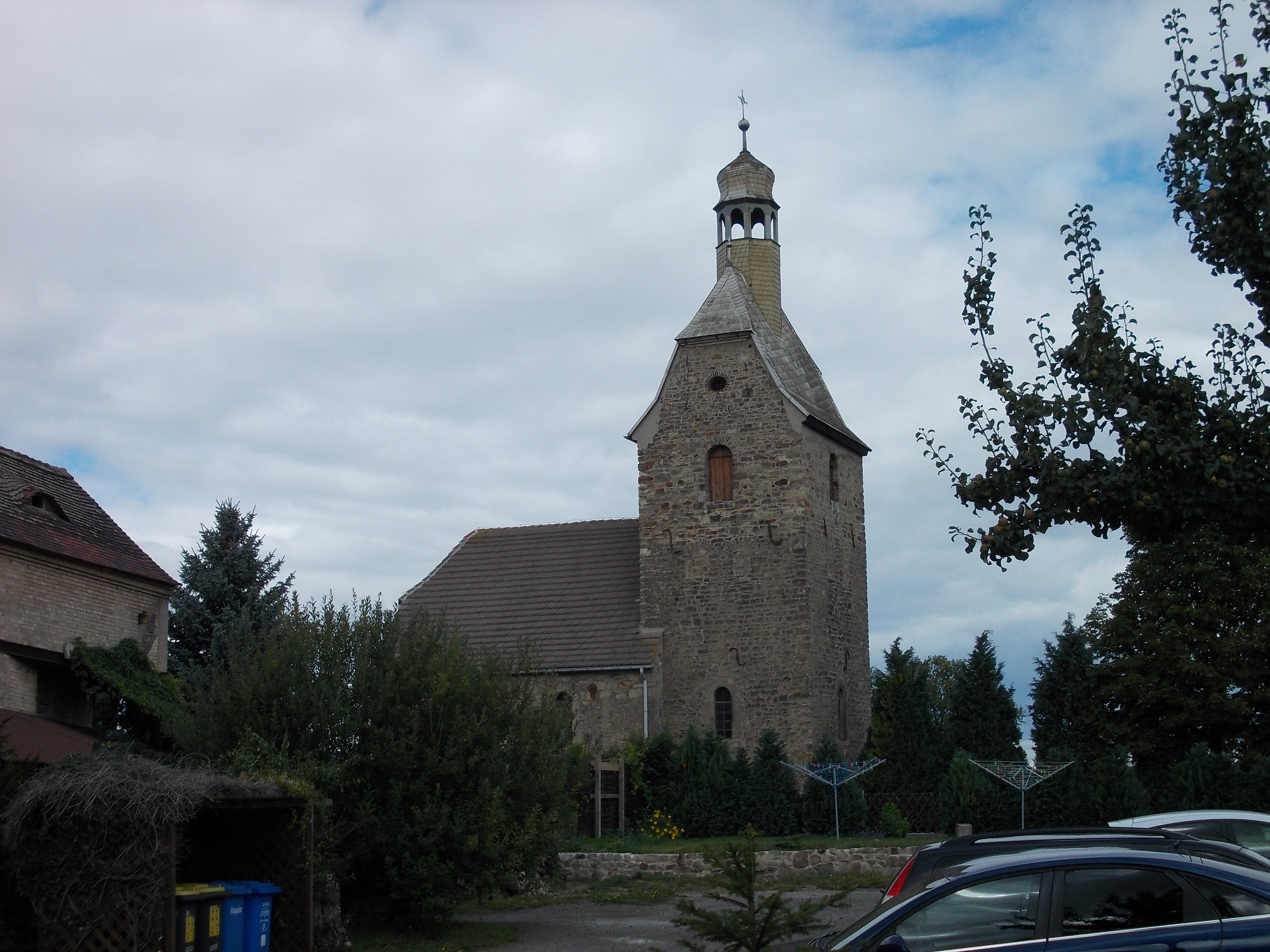 Krakau Church (Milzau, Bad Lauchstädt, district of Saalekreis, Saxony-Anhalt)